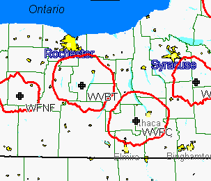 Cropped to show only Bristol Mountain transmitter location broadcast area.